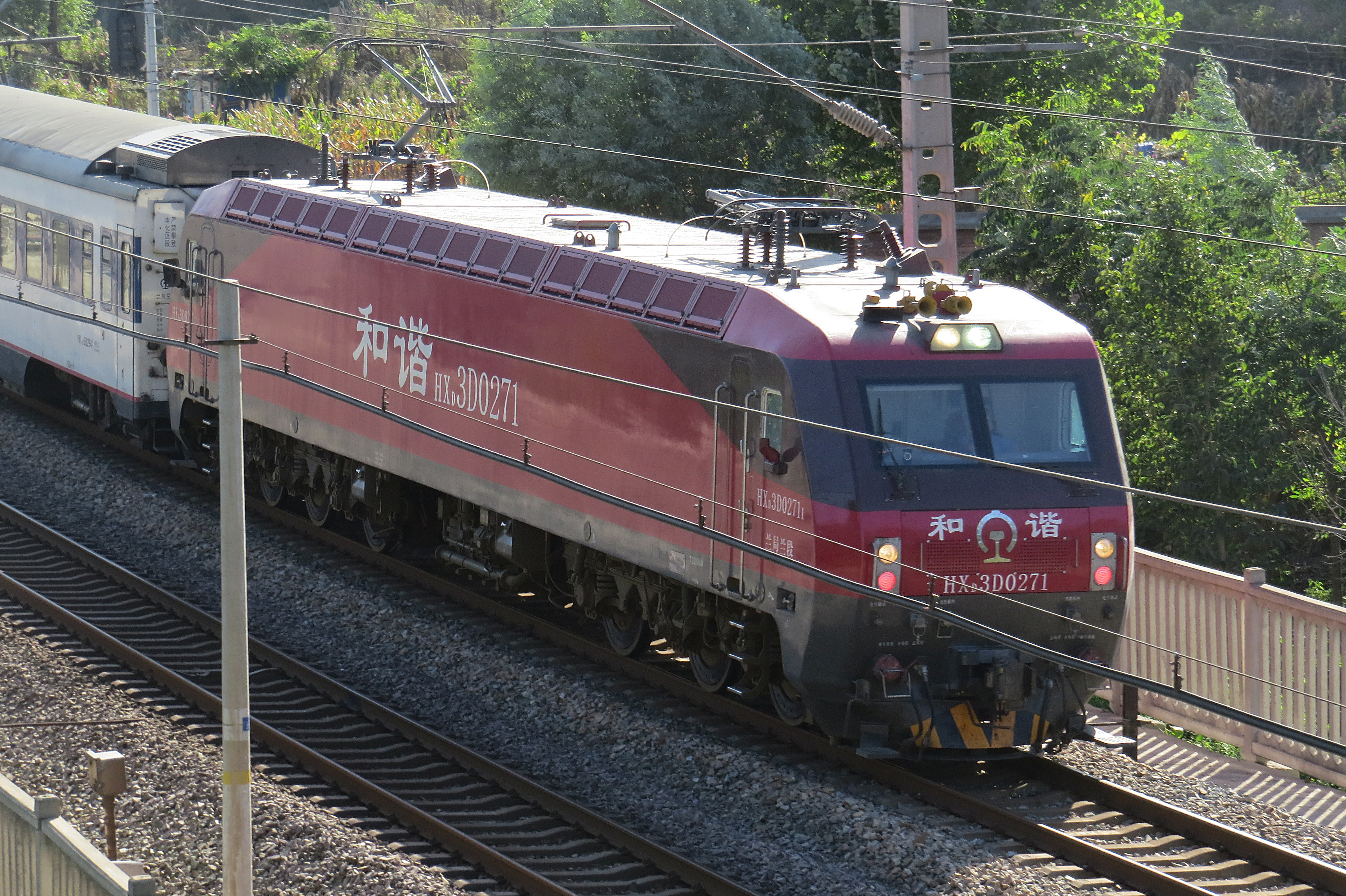 Z76 from Lanzhou.